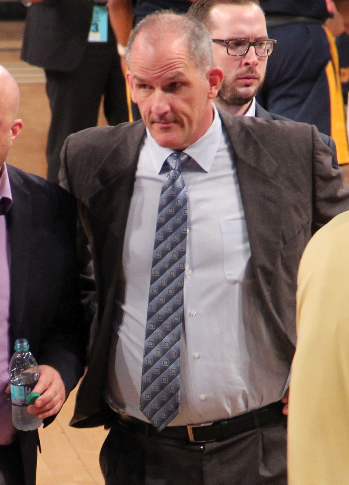 Georgia Tech assistant coach Eric Reveno, December 2016